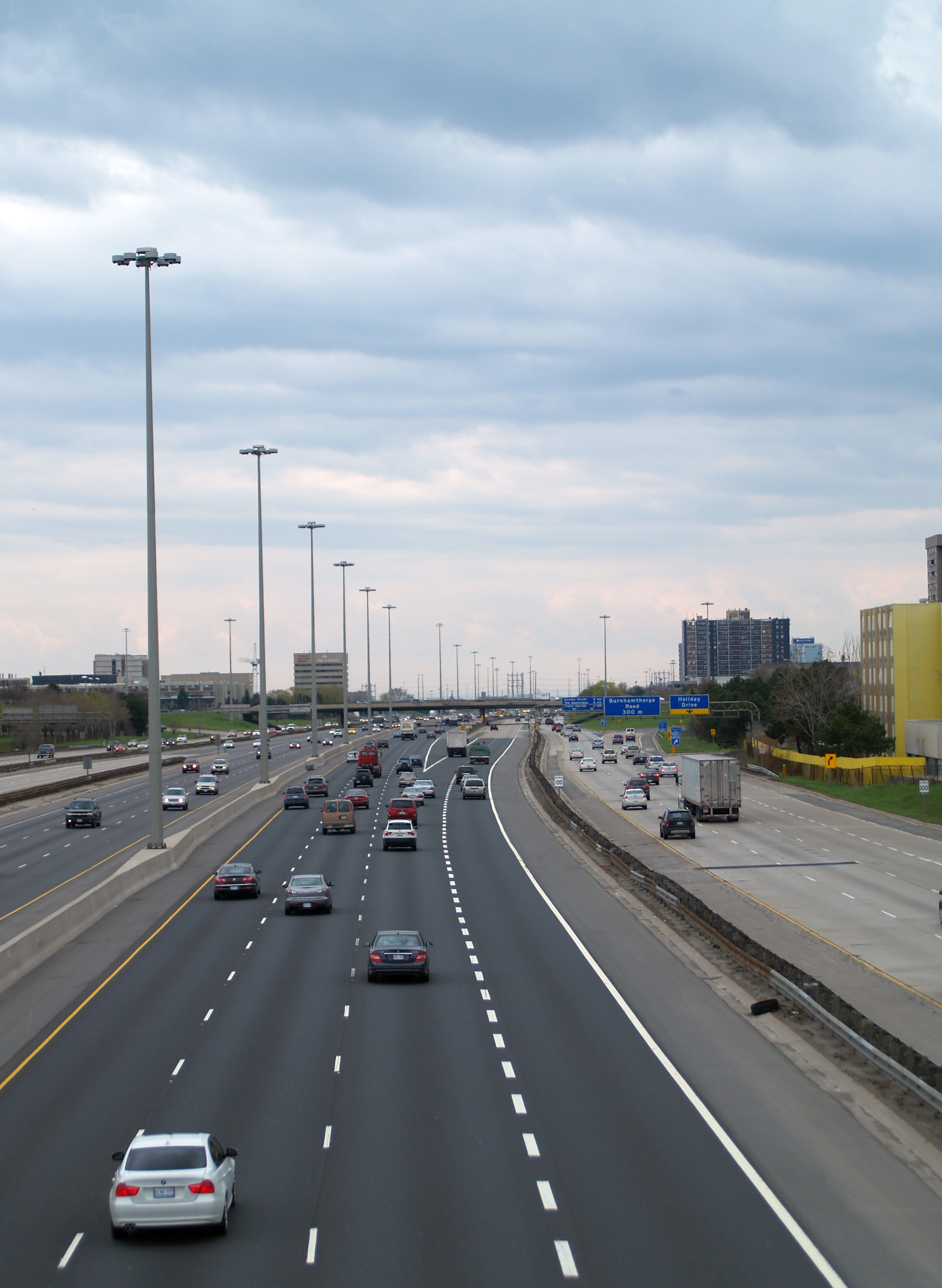 Highway 427 south of Rathburn Road, in the west end of Toronto, Ontario